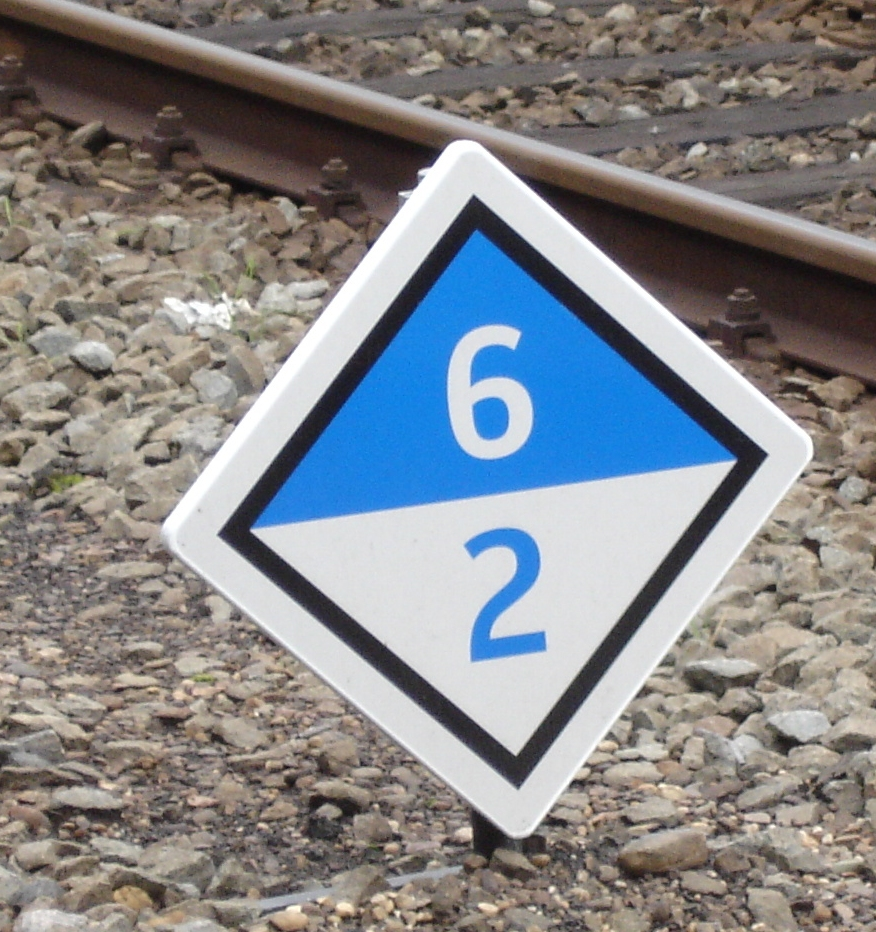 Bakbord op station